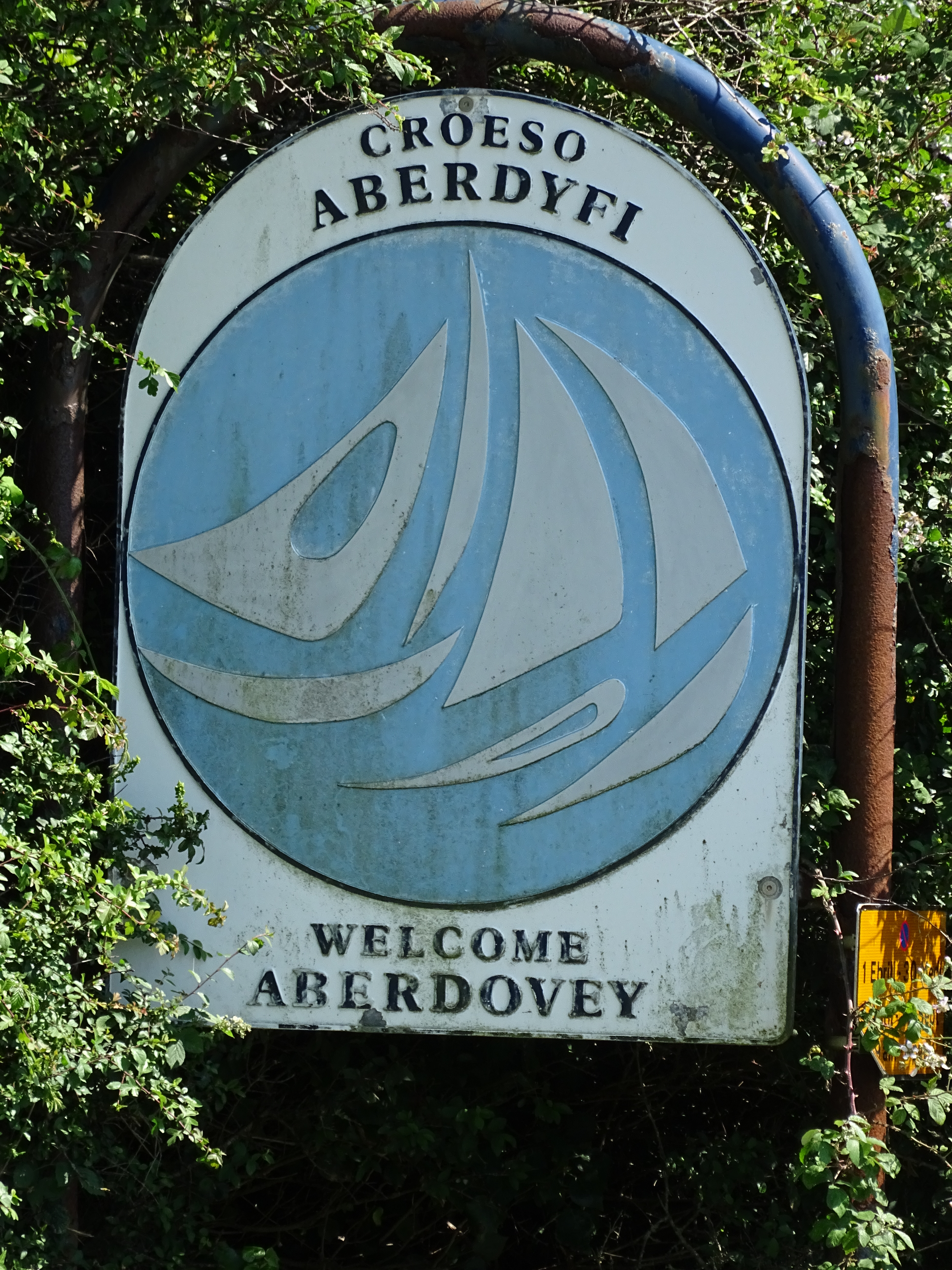 Bilingual welcome sign on the approach to Aberdyfi/Aberdovey from the north on the A493 adjacent to the Trefeddian Hotel on the west side of the village.